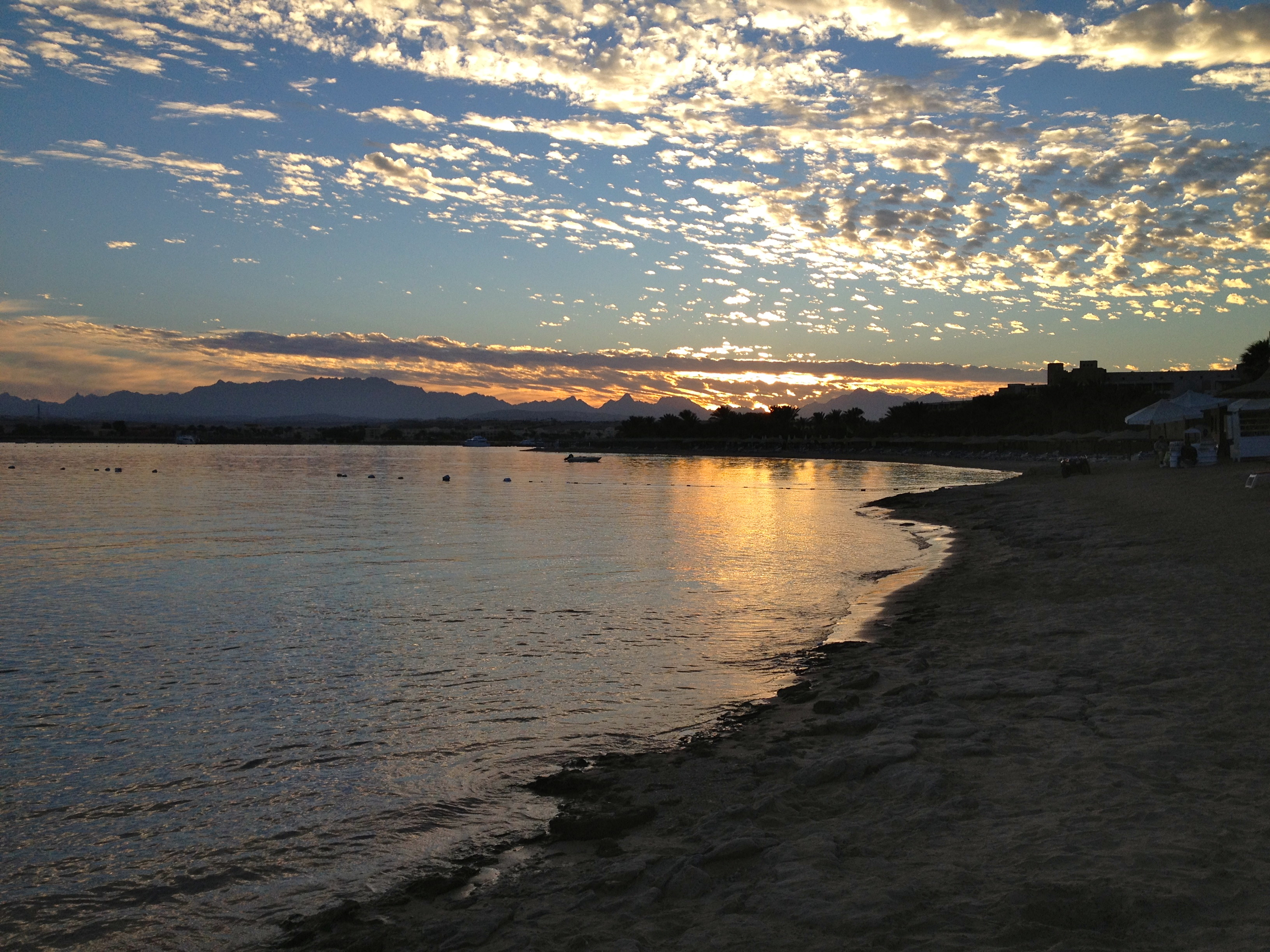 Coast at Makadi Bay after sunset